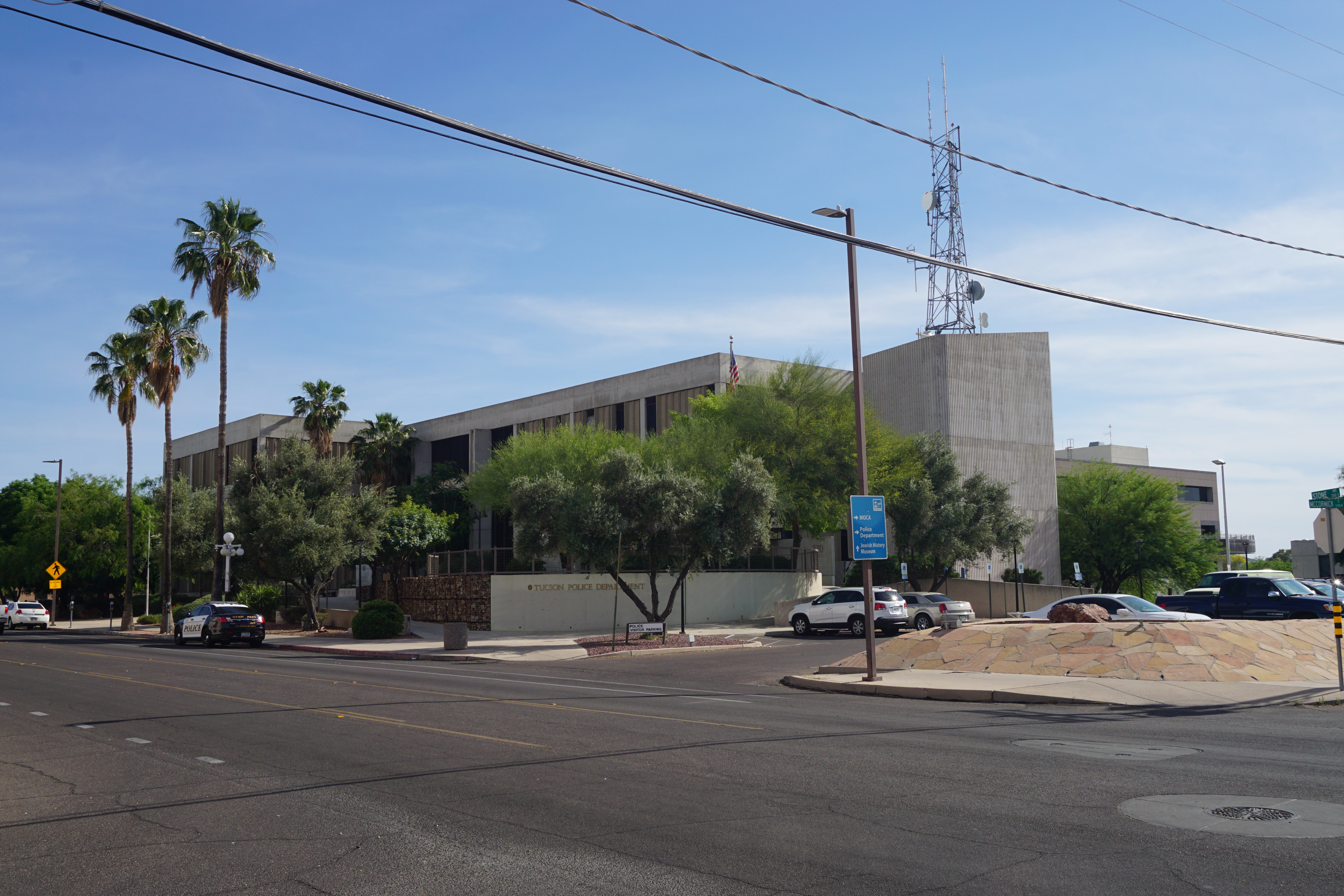 The Tucson Police Department building in Tucson, Arizona (United States).